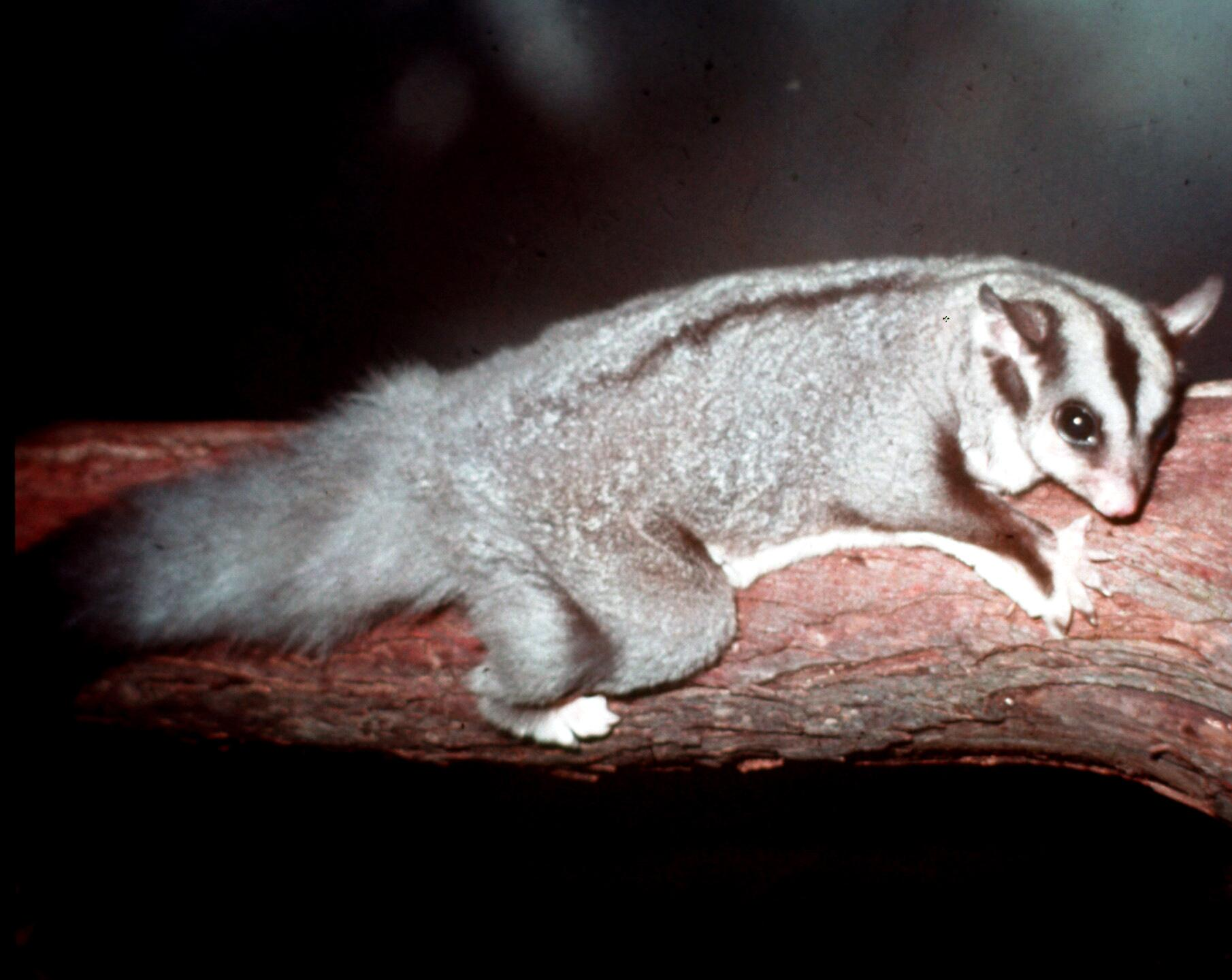 Squirrel Glider at Lone Pine Koala Sanctuary in Brisbane, Queensland, Australia